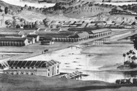 A view of Singapore, drawn by John Turnbull Thomson circa 1845, looking at the town from Pearl's Hill towards the east